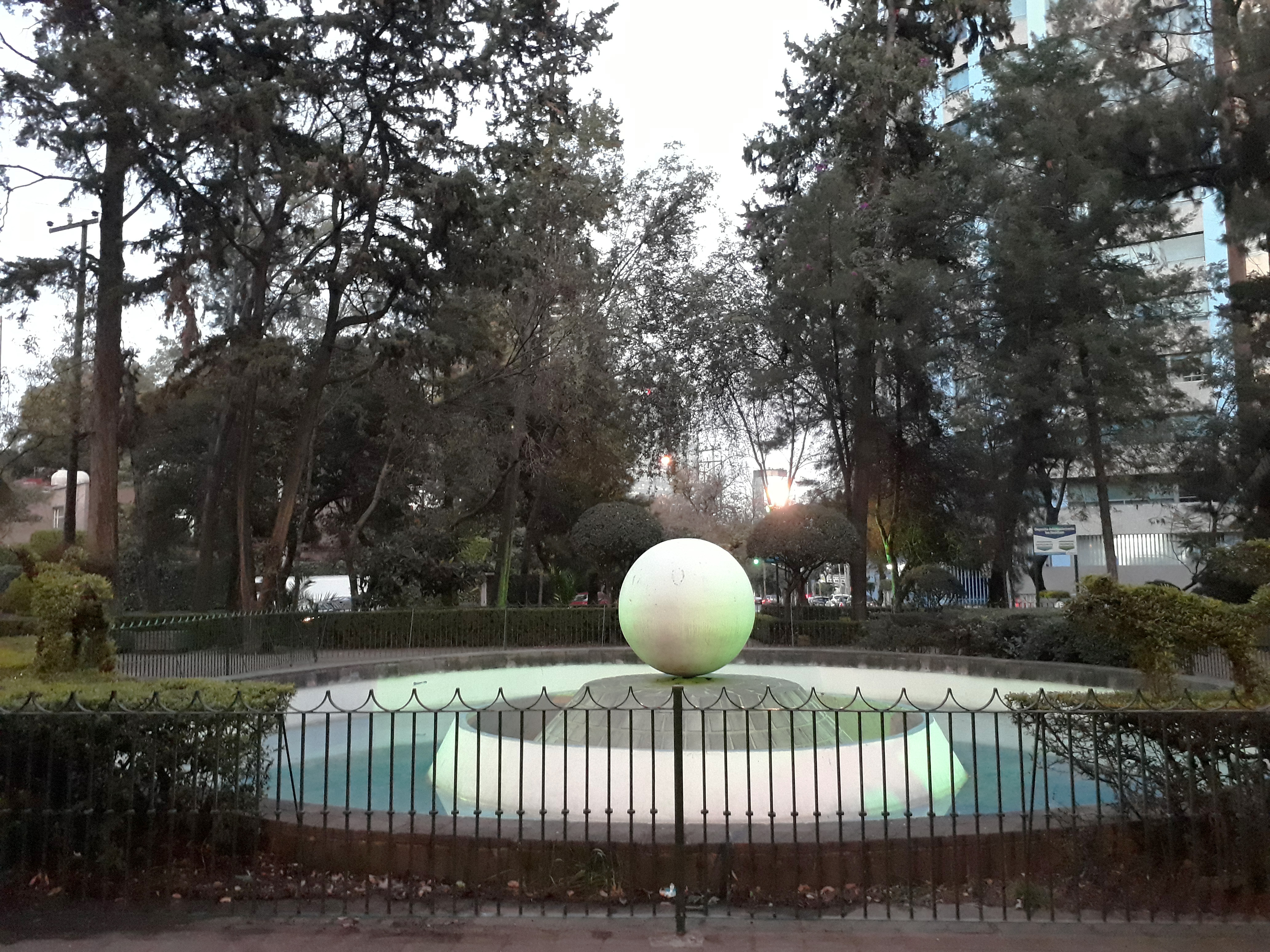 Ball's park, San José Insurgentes neighbourhood in southern Mexico City